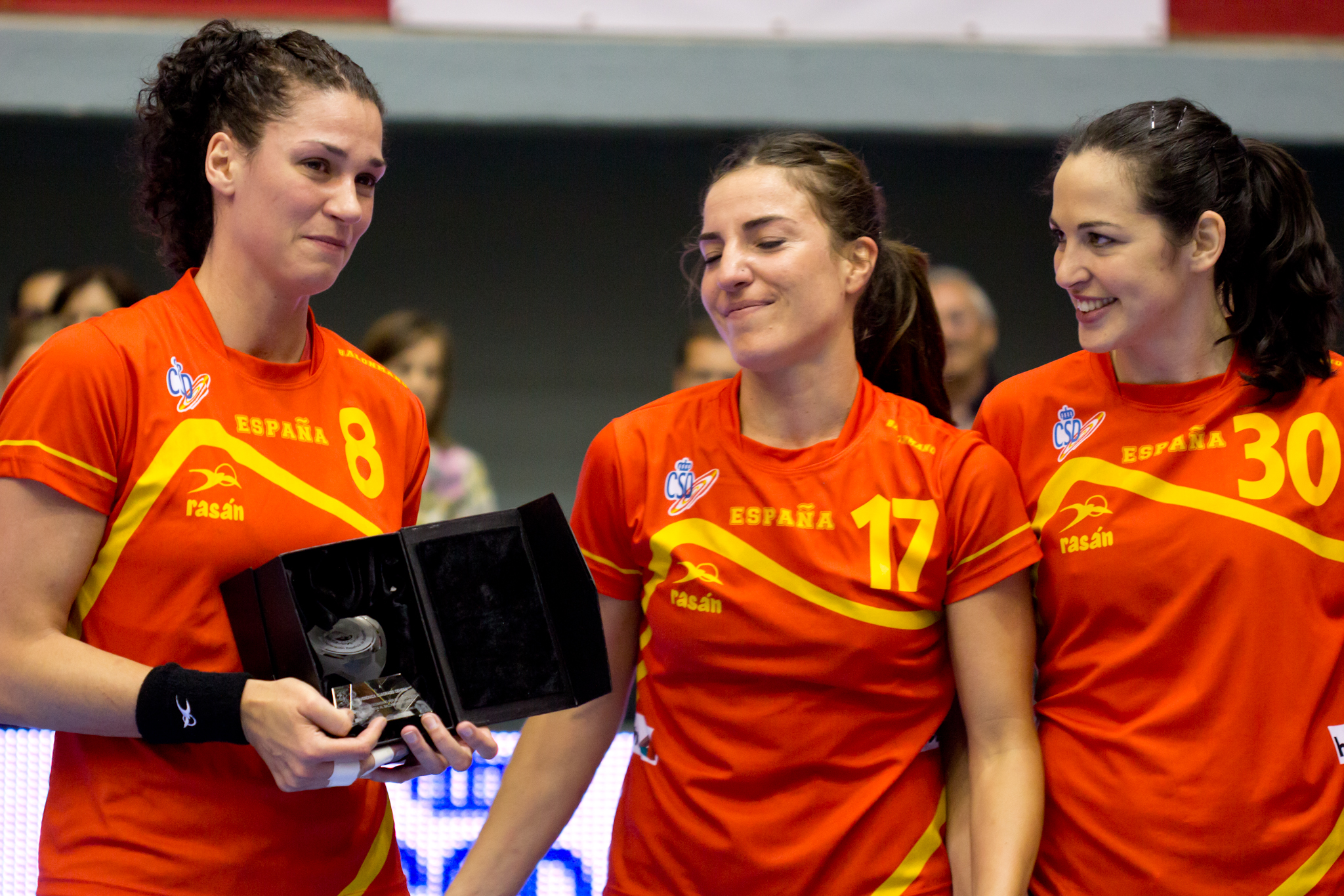 Farewell of Verónica Cuadrado from the Spain national handball team, at the Spain Handball All Star Game 2013, in San Sebastián de los Reyes, Madrid, Spain. From left to right: Verónica Cuadrado, Eli Pinedo, Patricia Elorza.